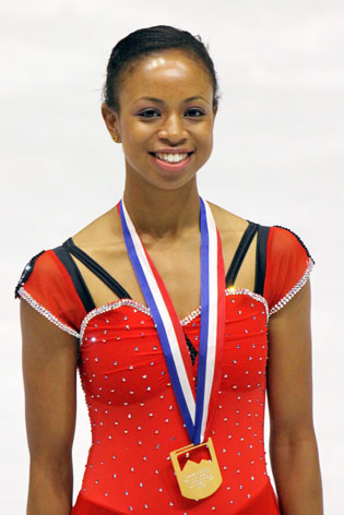 Kristine Musademba on the podium at the 2009-2010 Junior Grand Prix Lake Placid